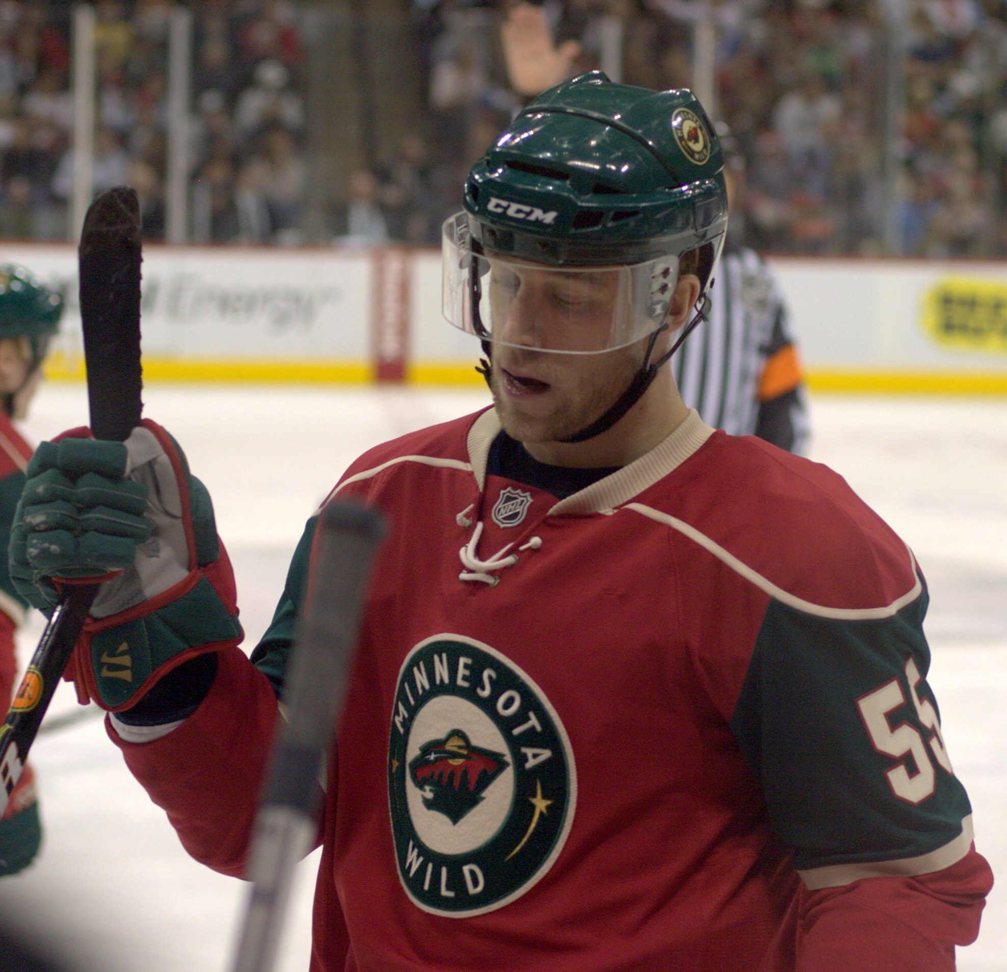 Nick Schultz, Minnesota Wild